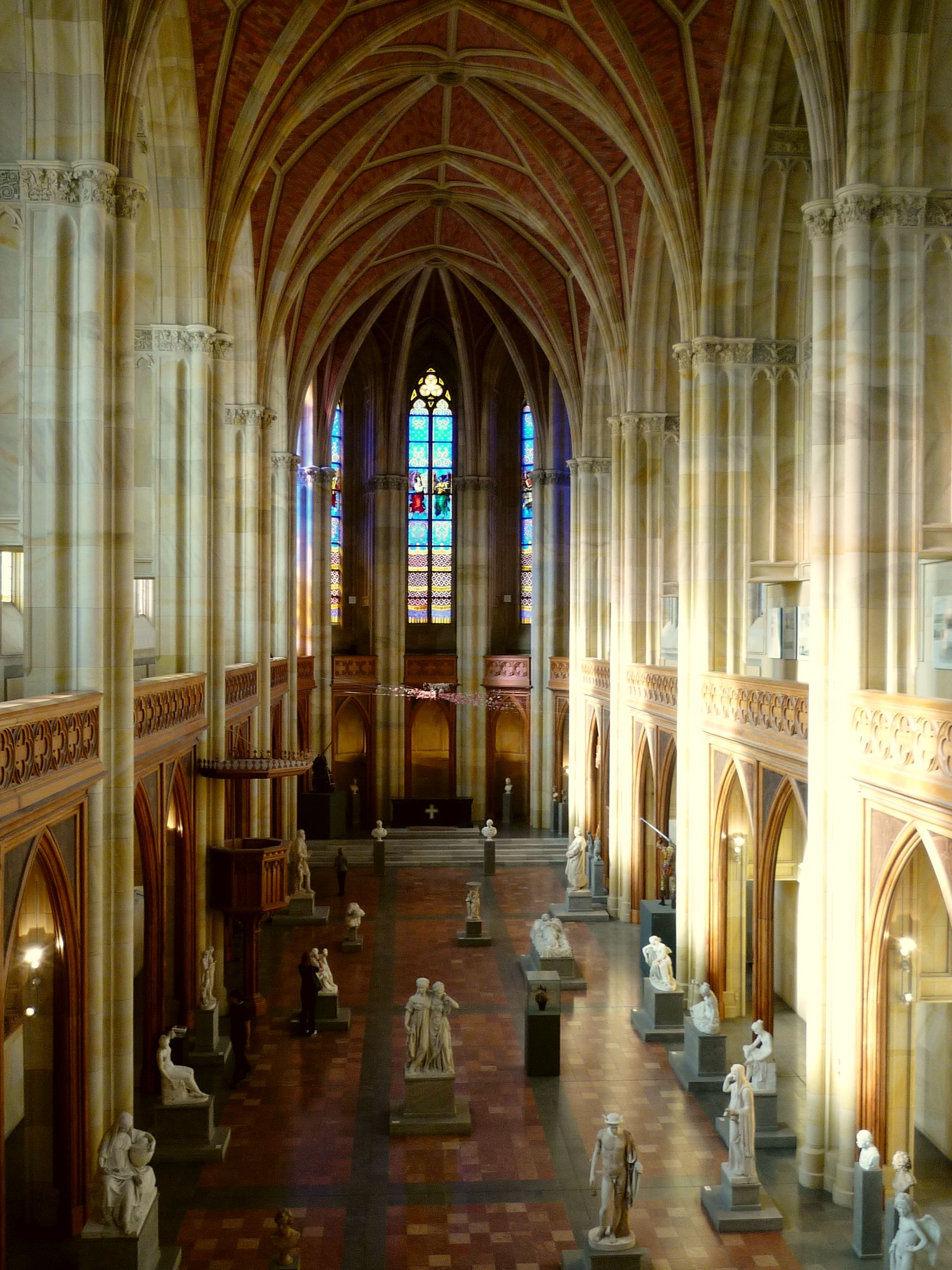 The "Friedrichswerdersche Kirche" (- church) in Berlin. Architect: Karl Friedrich Schinkel (1781-1841). Now a museum for Schinkel and other artists of his time. Interior.